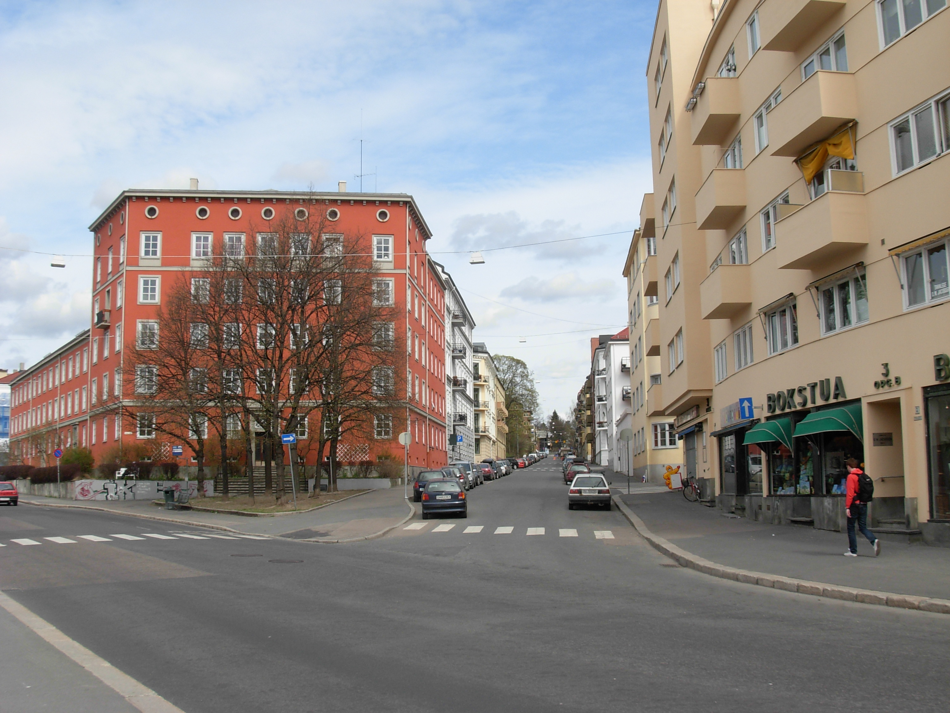 Sofies plass (square) and Colletts gate, Bislett, Oslo